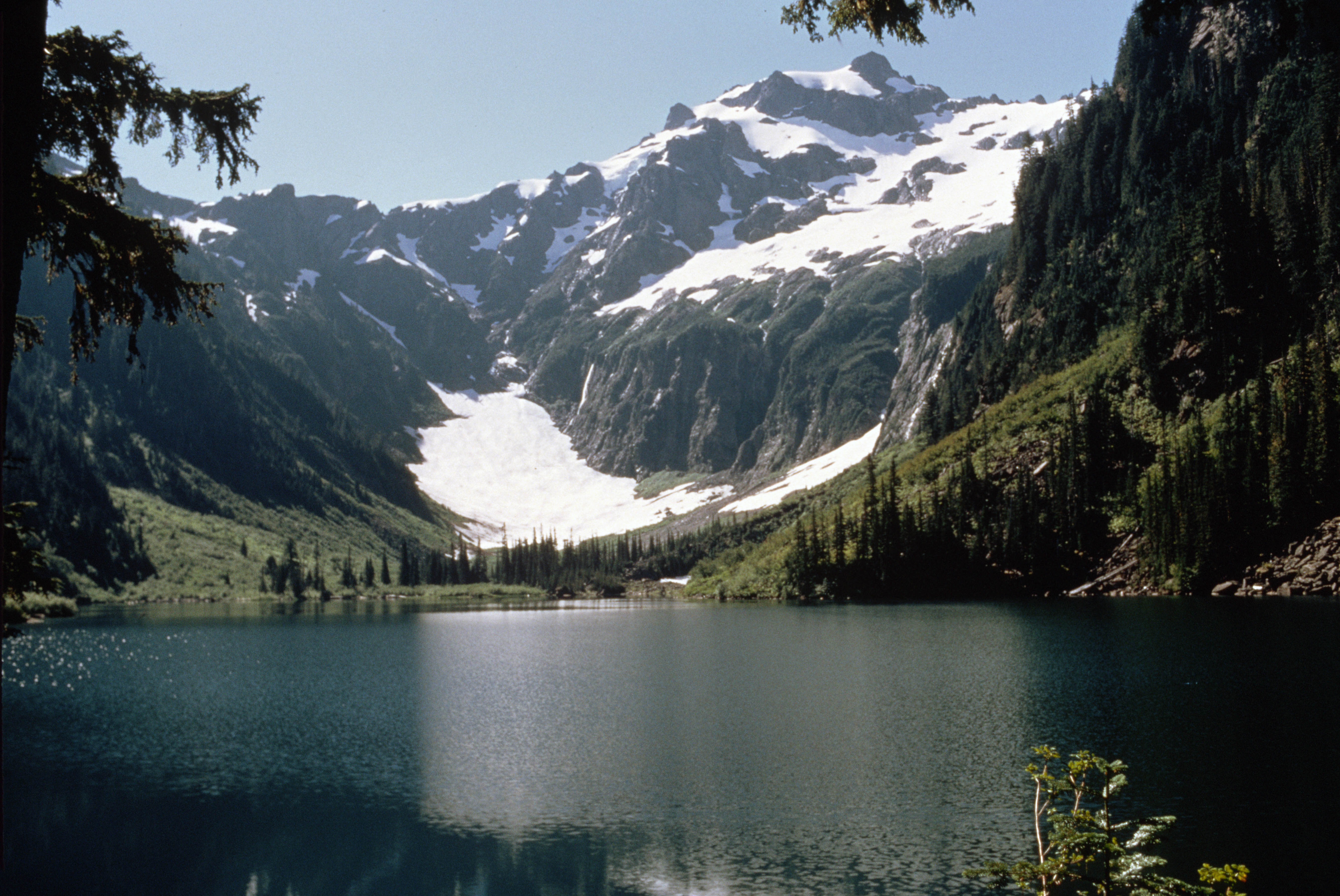 Okanogan-Wenatchee National Forest, Goat Lake.jpg